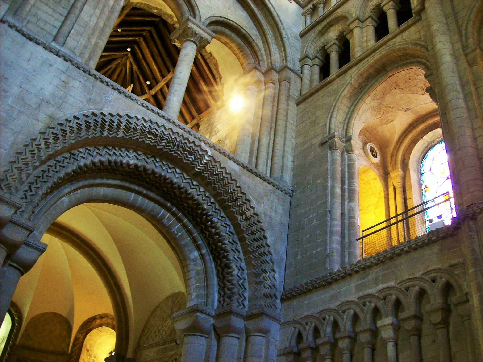 Romanesque arches, Ely Cathedral